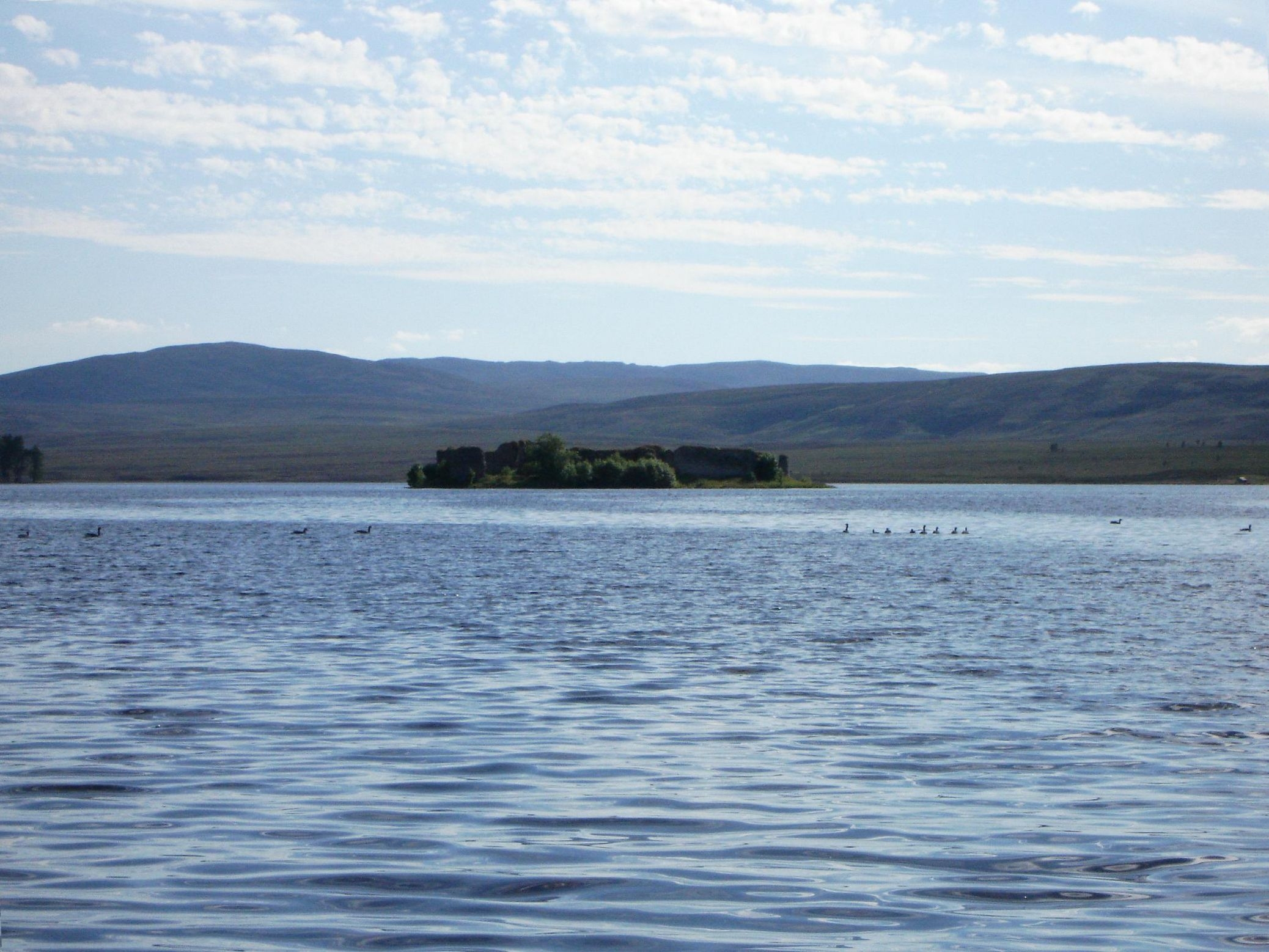 Photograph of Lochindorb Castle, Badenoch, Scotland.